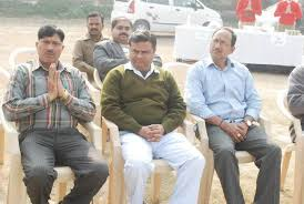 Teachers of Vidyalaya